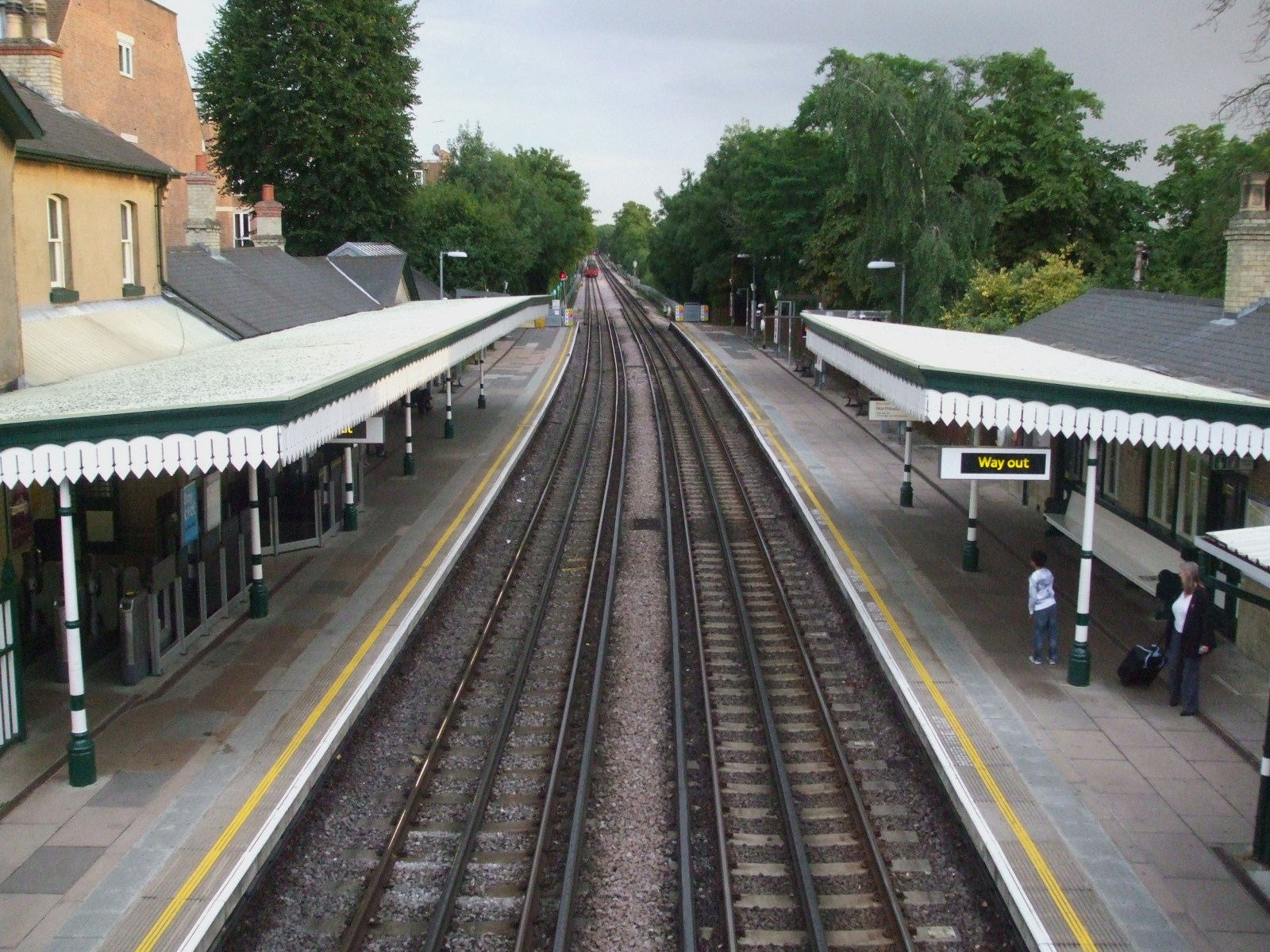 Woodside Park tube station looking south from footbridge